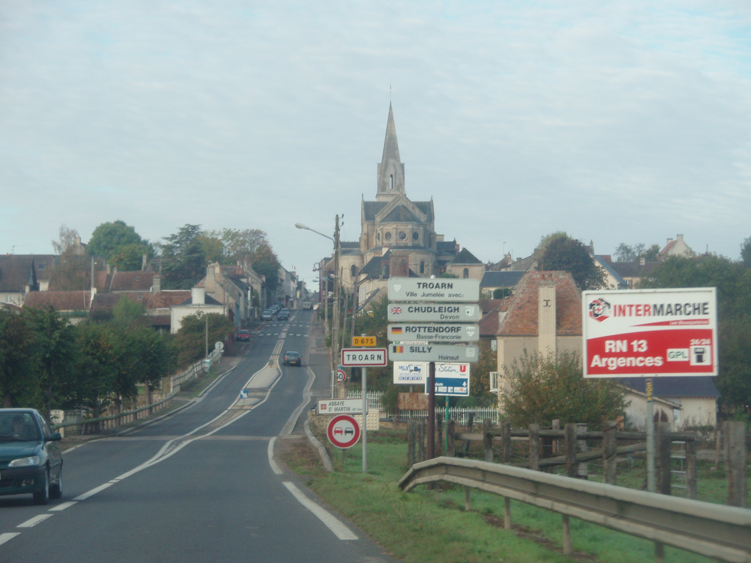 Troarn, France